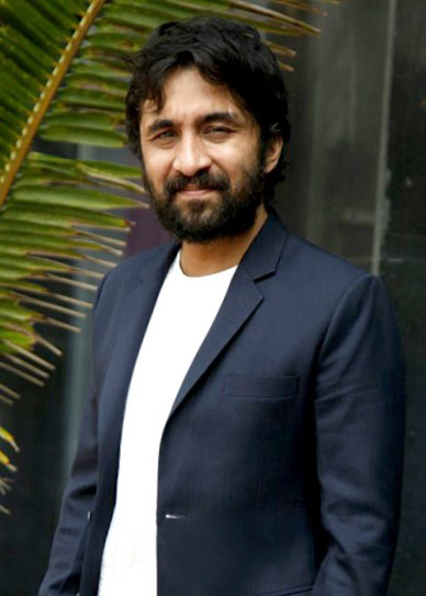 Siddhanth Kapoor at a promotion of Haseena Parkar.